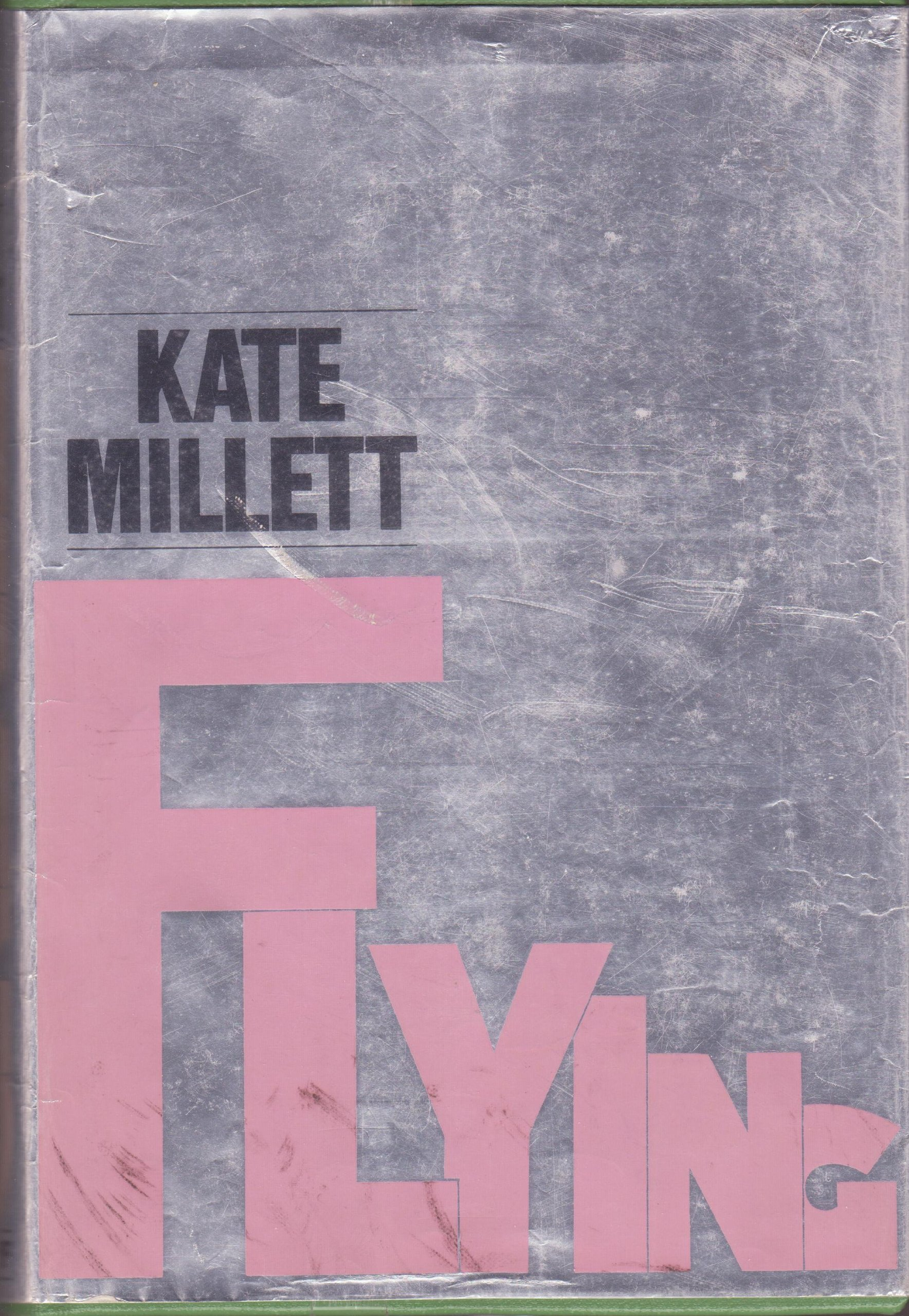 Kate Millet, Flying book cover